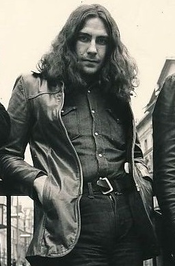 British heavy metal band Black Sabbath.